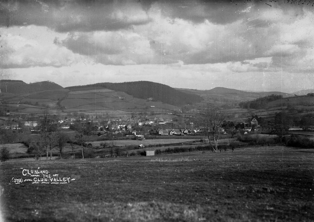 Abstract: " Clun" and the Clun valley